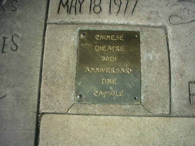 Grauman's Chinese Theatre 50th anniversary time capsule